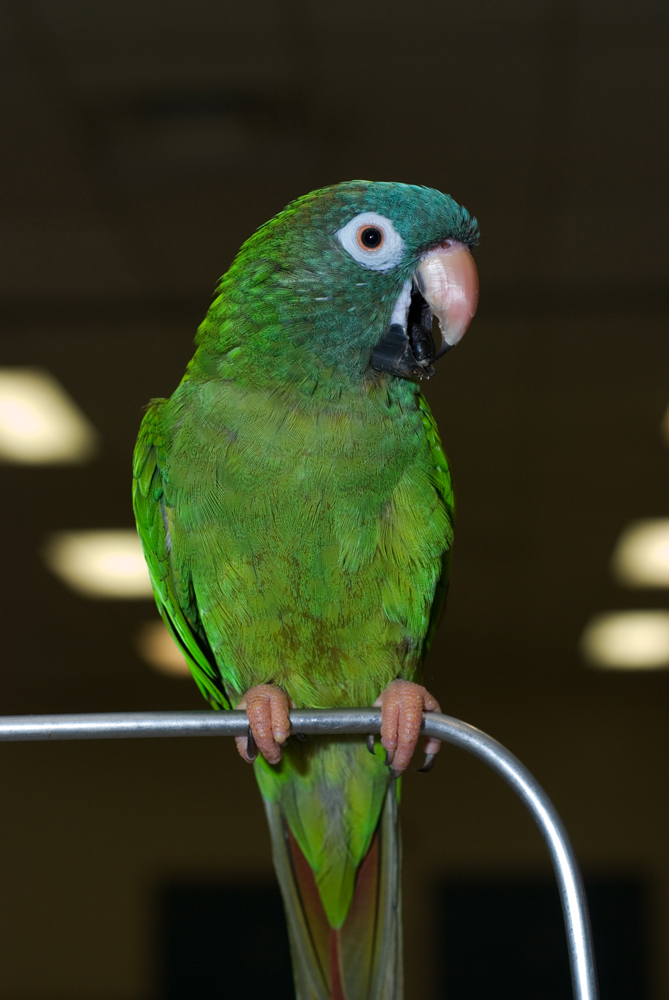 A pet Blue-crowned Parakeet (also known at the Blue-crowned Conure and Sharp-tailed Conure) at the Ottawa Parrot Club Meeting on 21 September 2008. Photography: One SB-600 diffused on camera, manual at 1/2 power. Bounced off the ceiling.